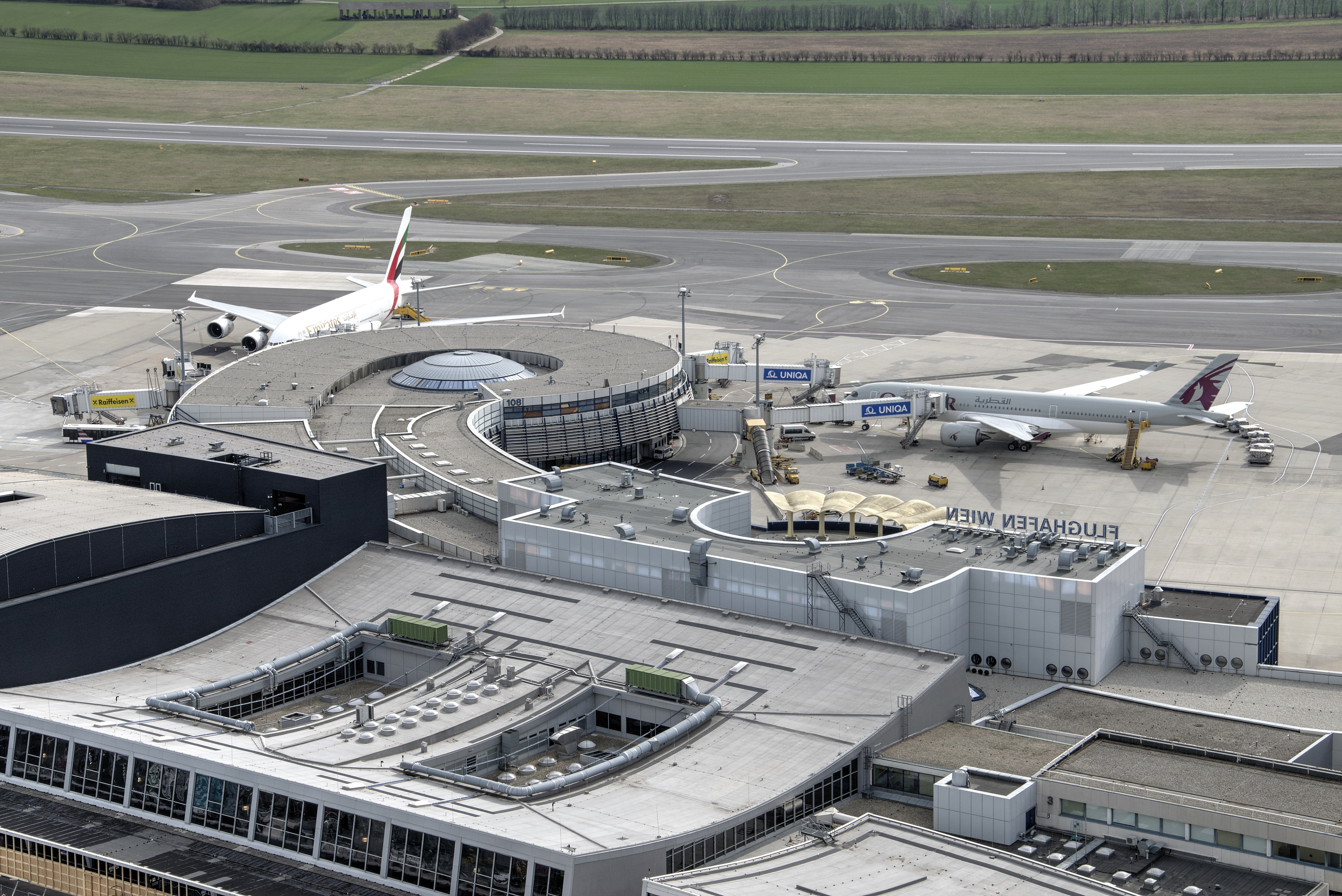 Pier Ost Vienna International Airport from the Air Traffic Control Tower